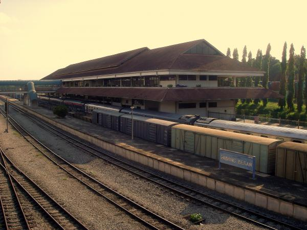 The most north inland dryport railway station in Malaysia and the railway main gate between Malaysia and Thailand